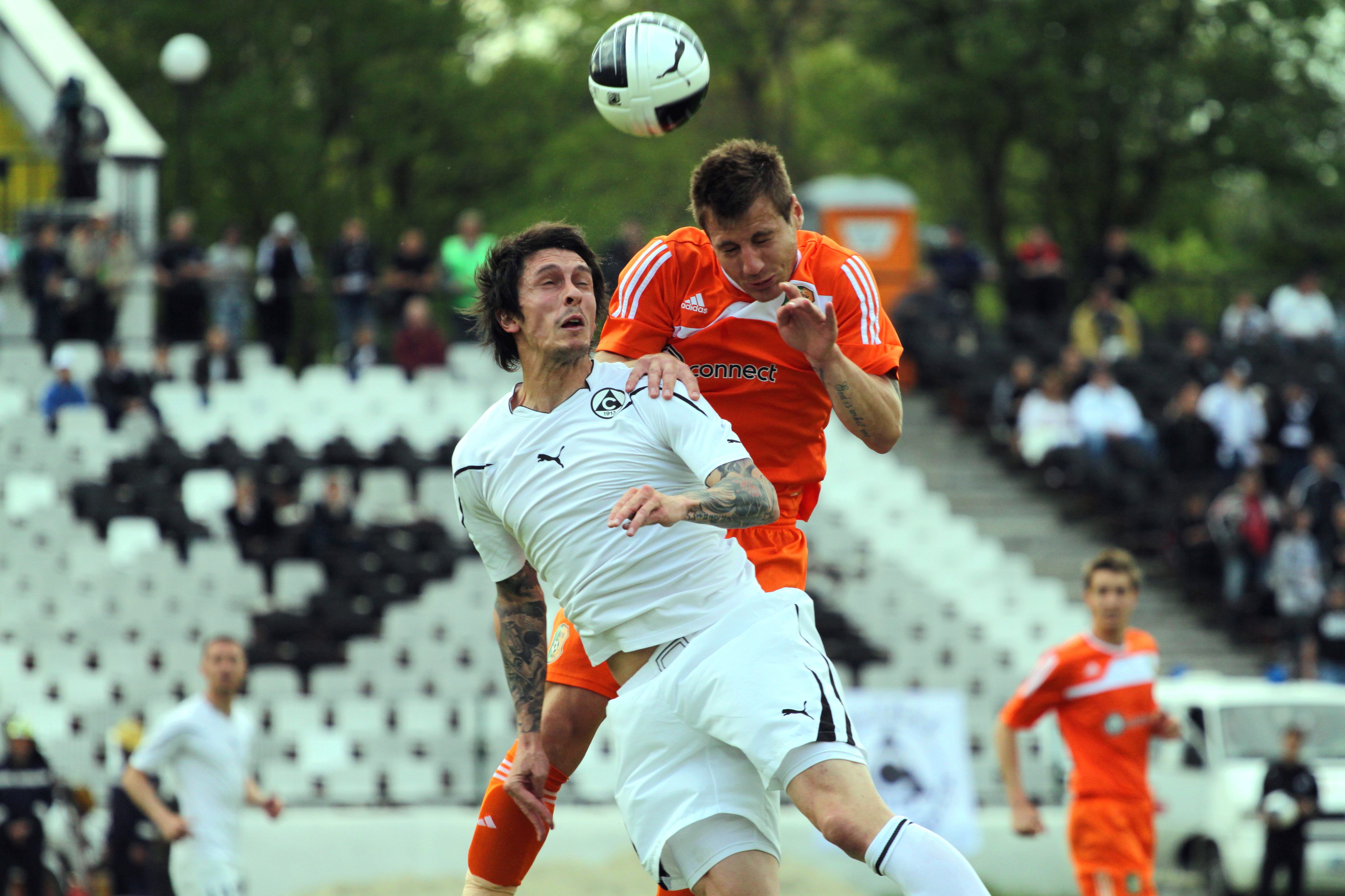 Moment of the football match Slavia Sofia Litex Lovech, ended 0-1. Bulgarian football championship - A PFG.